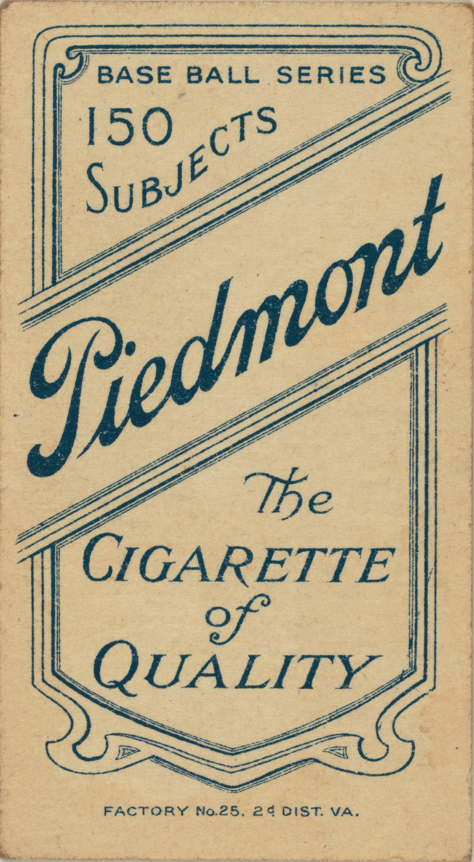 The reverse of a White Borders baseball card.